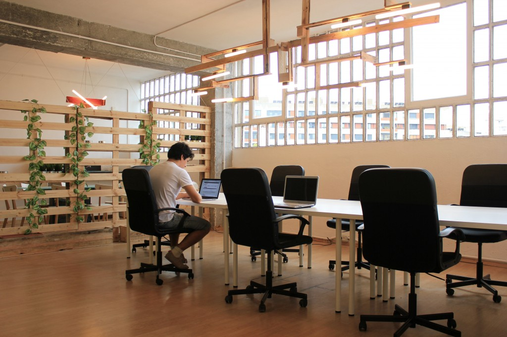 Coworking BCNewt / Coworking space, Poblenou, Barcelona.